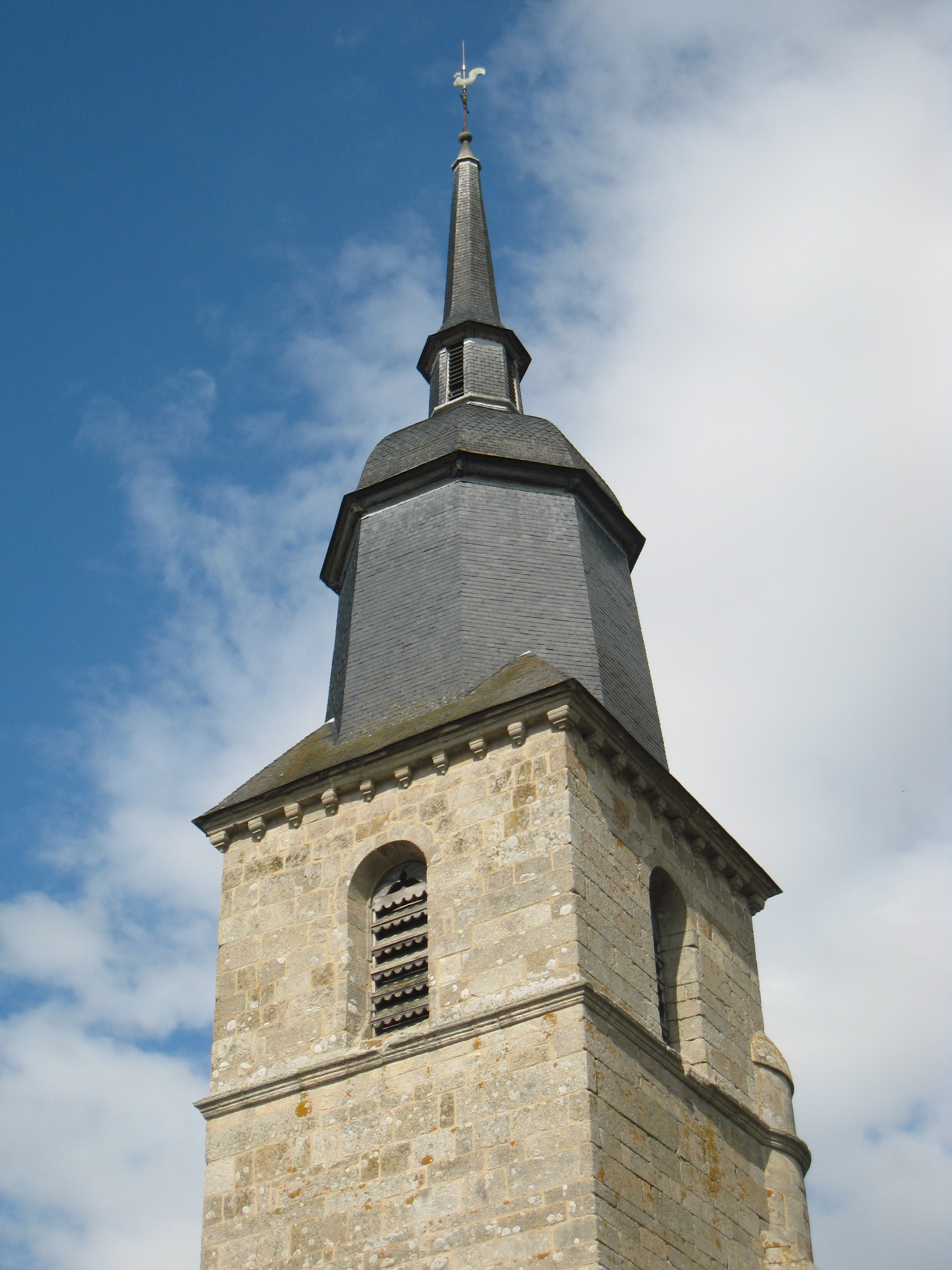 Saint-Martin church's bell tower in Lamballe